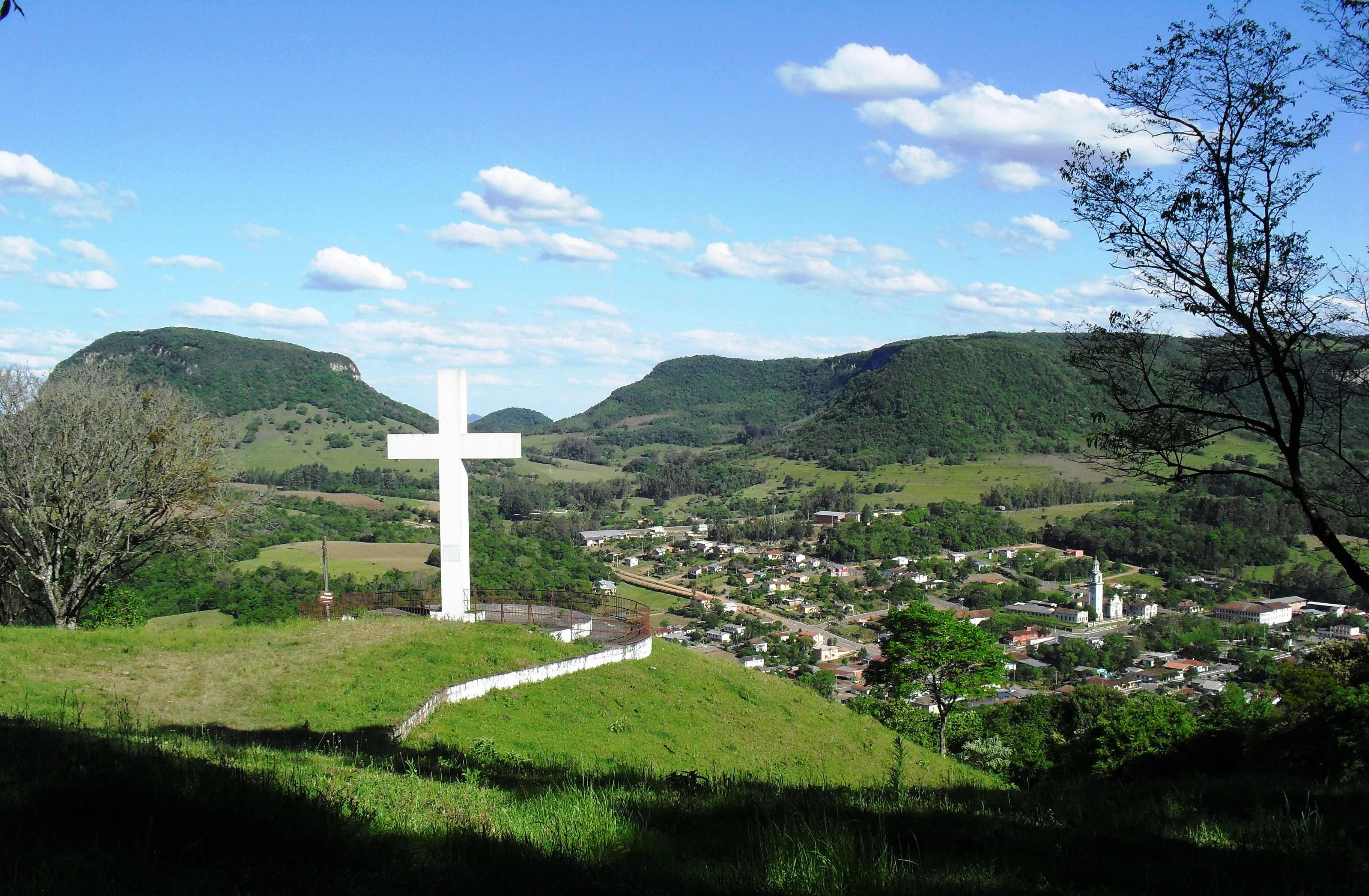 Partial view of the city from the municipality's country